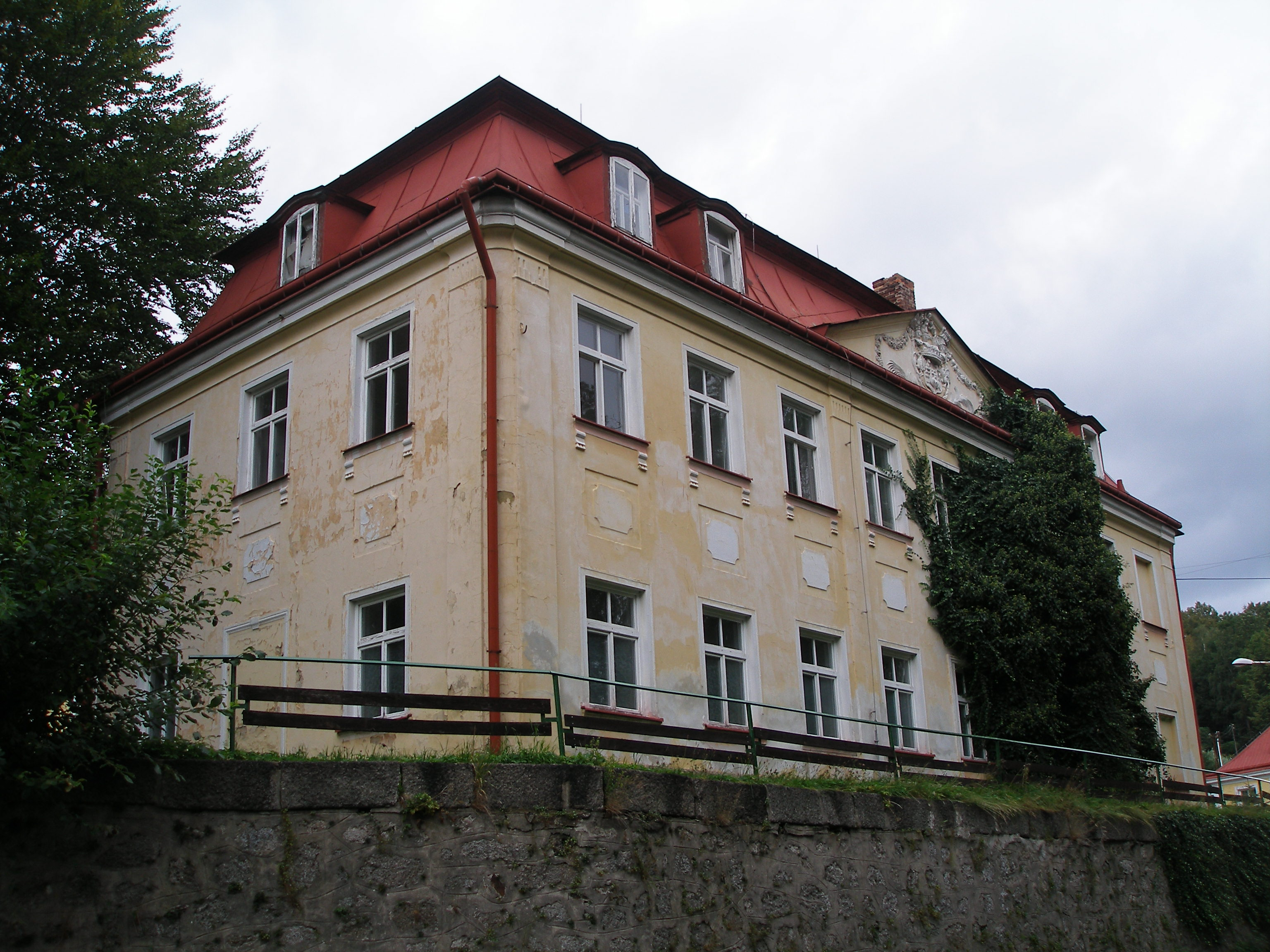 Palace in Lazne Libverda, Czech Republic